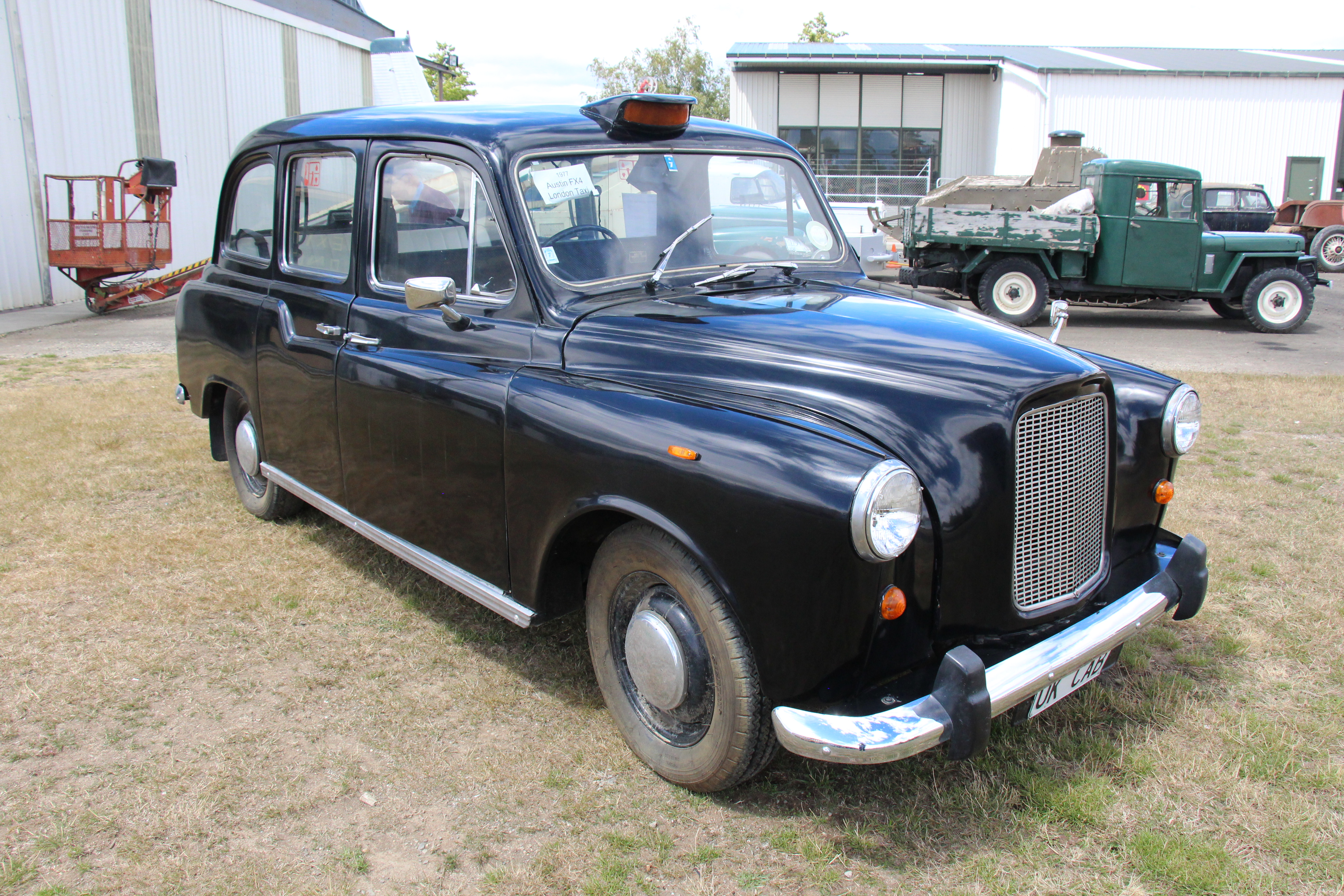 The Austin FX4 is a taxicab that was produced from 1958-97. It was sold by Austin from 1958-82, when Carbodies, who had been producing the FX4 for Austin, took over the rights to the car. They continued production until 1984 when London Taxis International took over the rights to the FX4 - and they produced it until 1997. In all, more than 75,000 FX4s were built. The FX4 replaced the 1948-58 FX3 Most FX4s from 1961-71 had the Austin 2178cc diesel engine, from 1962-73 the Austin 2199c petrol engine was available, although most were fitted with the diesel. In 1971 the diesel engines size was increased to 2520cc. When Carbodies took over in 1982, they used the Land Rover 2286cc diesel engine, now the FX4R (R for Rover)